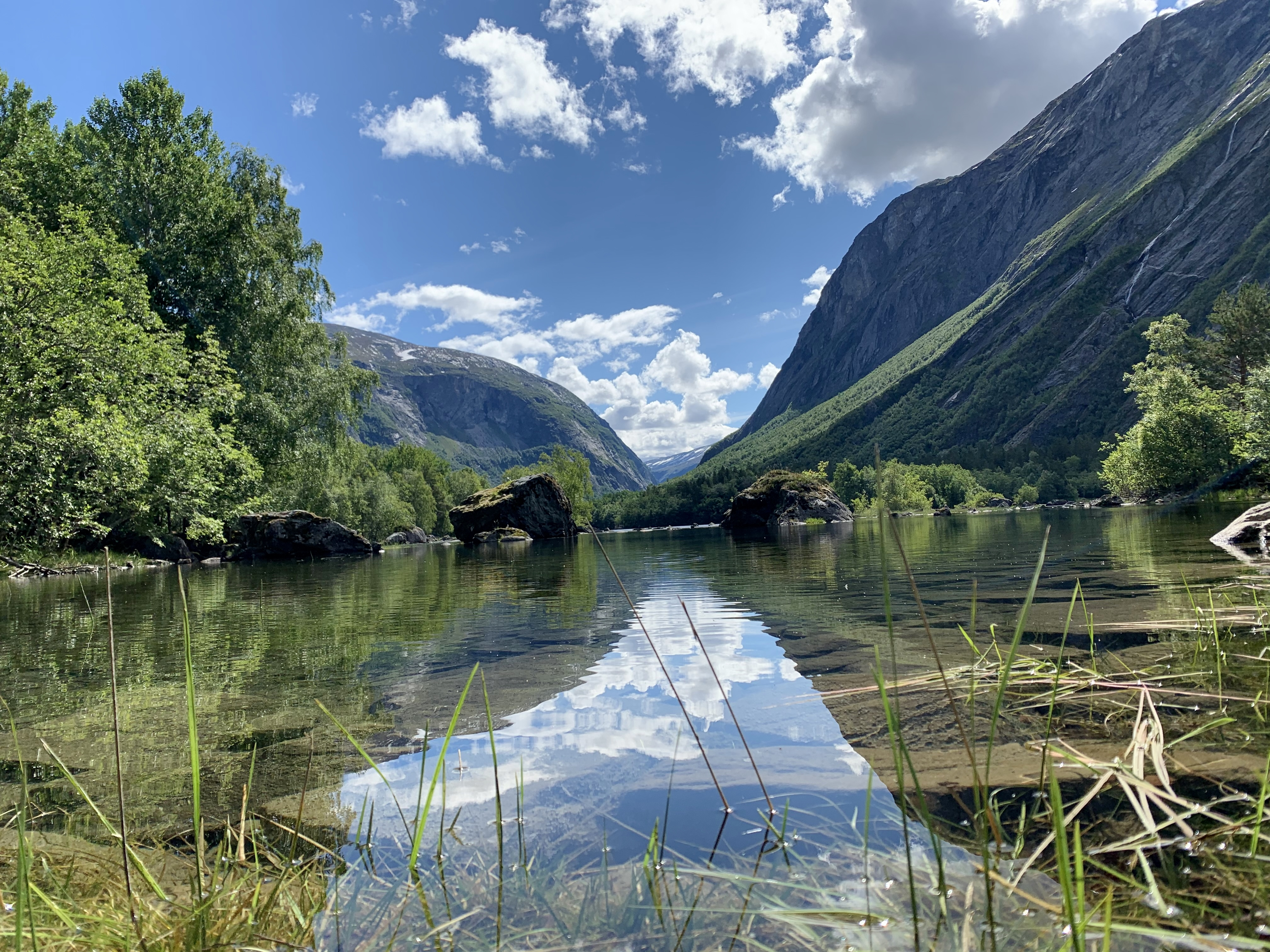 Litlevatnet in Eikesdal, Nesset, Møre og Romsdal